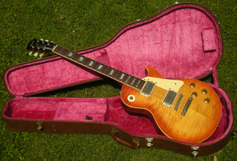 A 1980 Greco Super Real EGF1200 with Dry Z pickups.